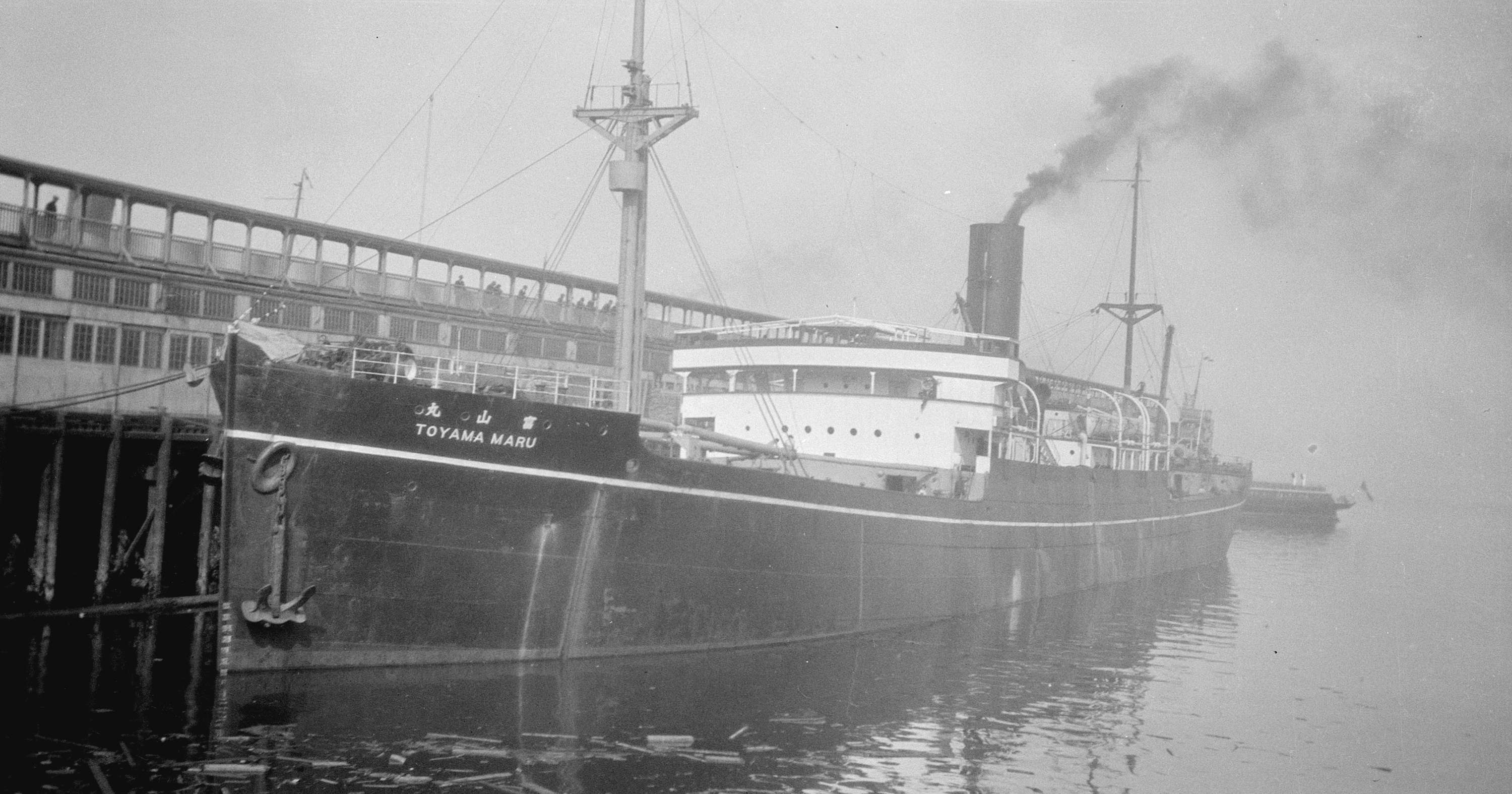 Japanese cargo ship Toyama Maru.